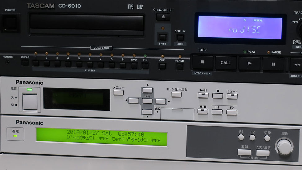 Professional CD player and public background music system. Below display shows half-width katakana character; The message "ｼﾞｯｺｳﾁｭｳ: ｾｯﾃｲﾊﾟﾀｰﾝﾅｼ" means "実行中: 設定パターン無し (In process: No configured pattern.)"